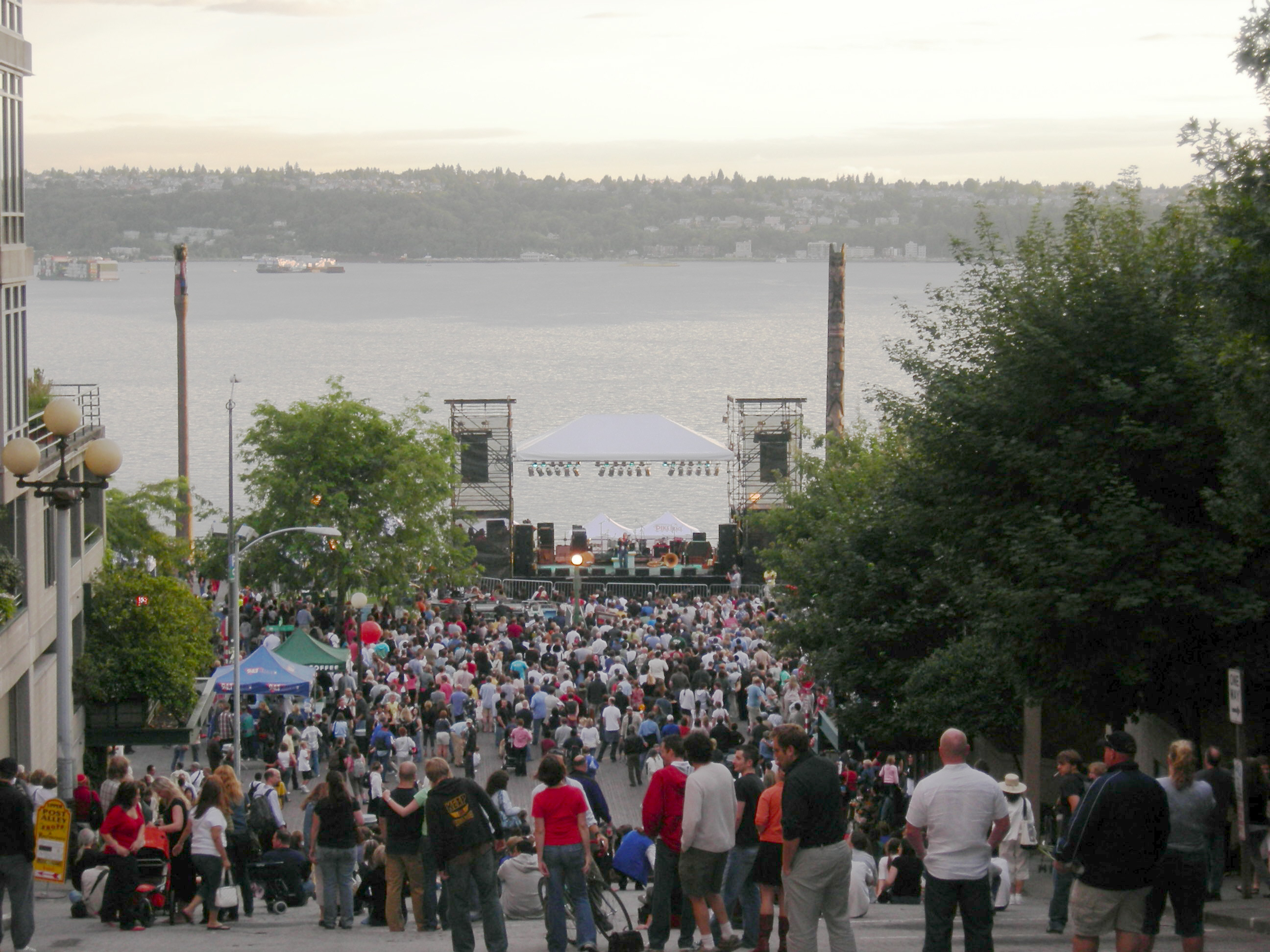 Crowd starts to form up on Virginia Street in Seattle to view concert for the 100th anniversary of Pike Place Market. In background, Elliott Bay and beyond that West Seattle.